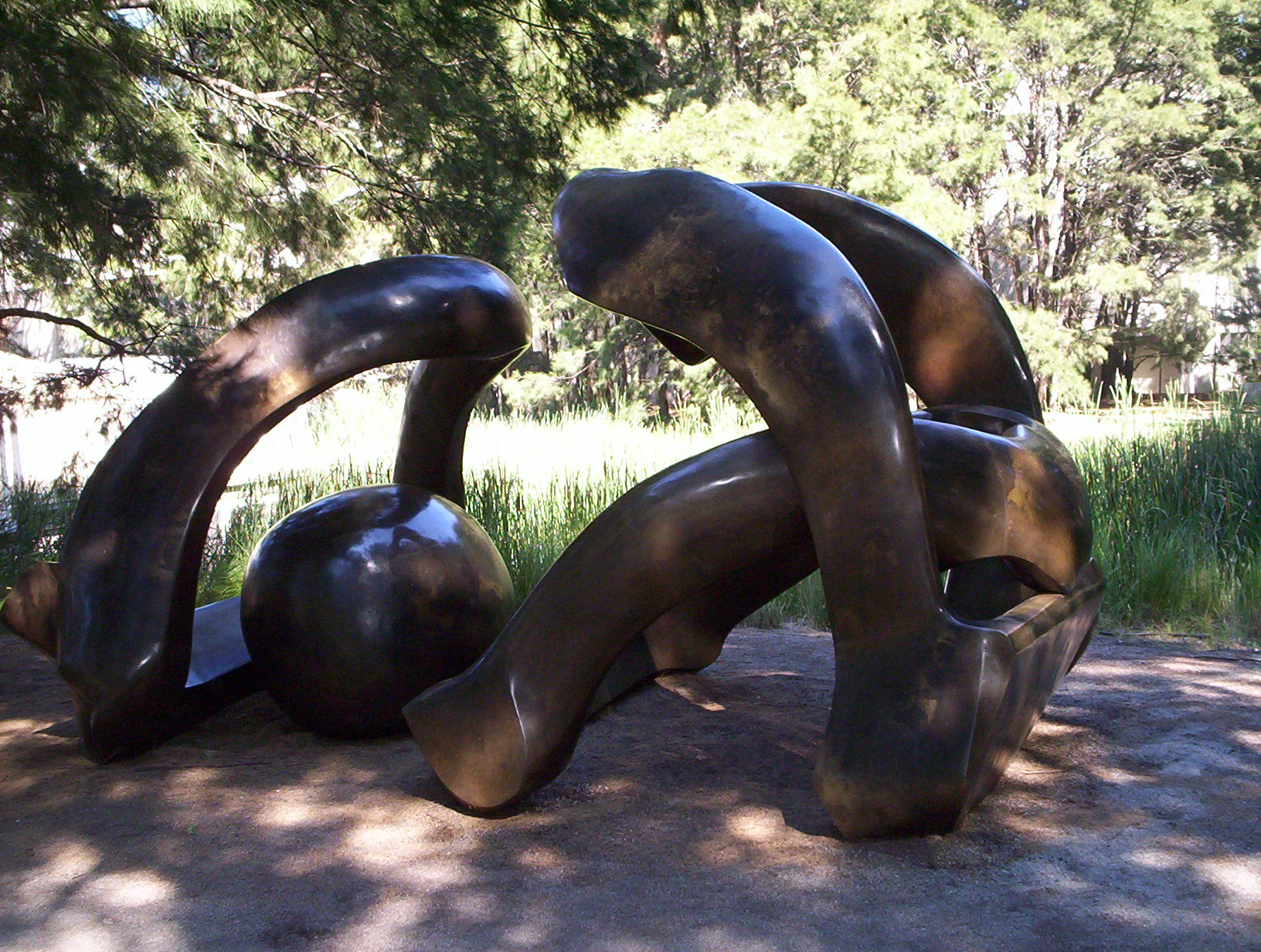 Henry Moore Hill Arches (1972-73), bronze, at the National Gallery of Australia sculpture garden. I took the photo. Cfitzart 01:08, 25 August 2005 (UTC)